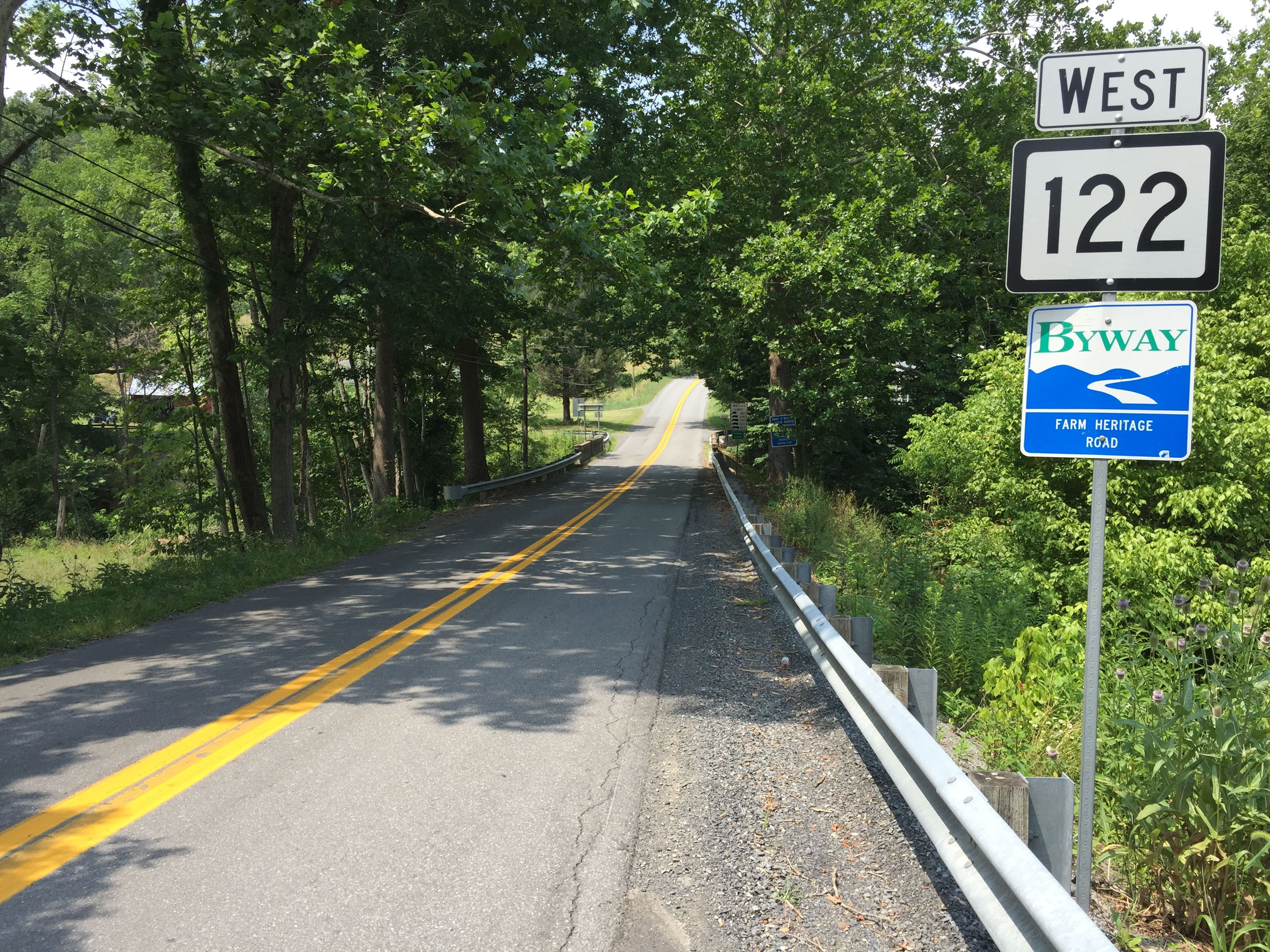 View west along West Virginia State Route 122 (Greenville Road) at U.S. Route 219 (Seneca Trail) in Raines Corner, Monroe County, West Virginia